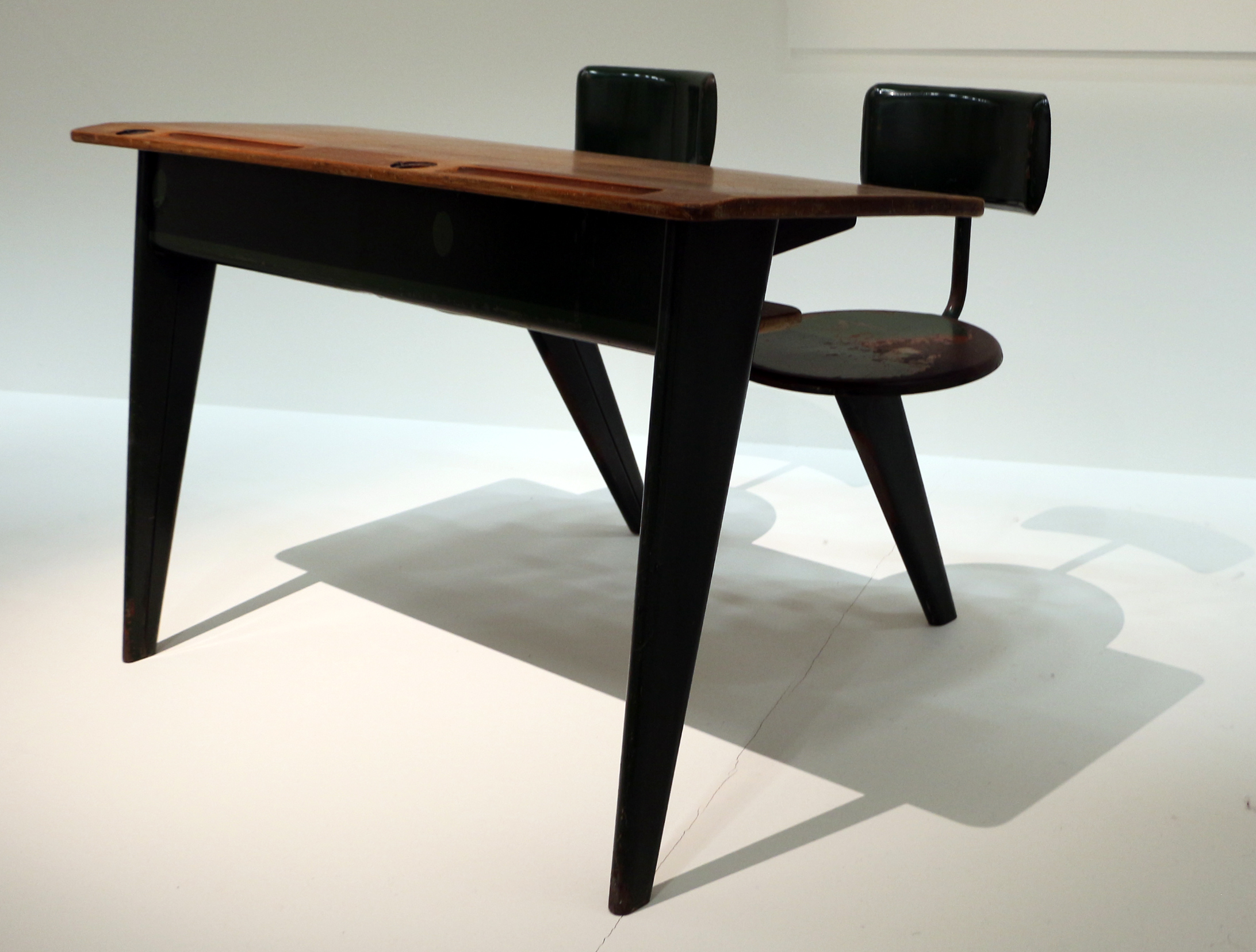 Decorative arts in the Musée national d'art moderne